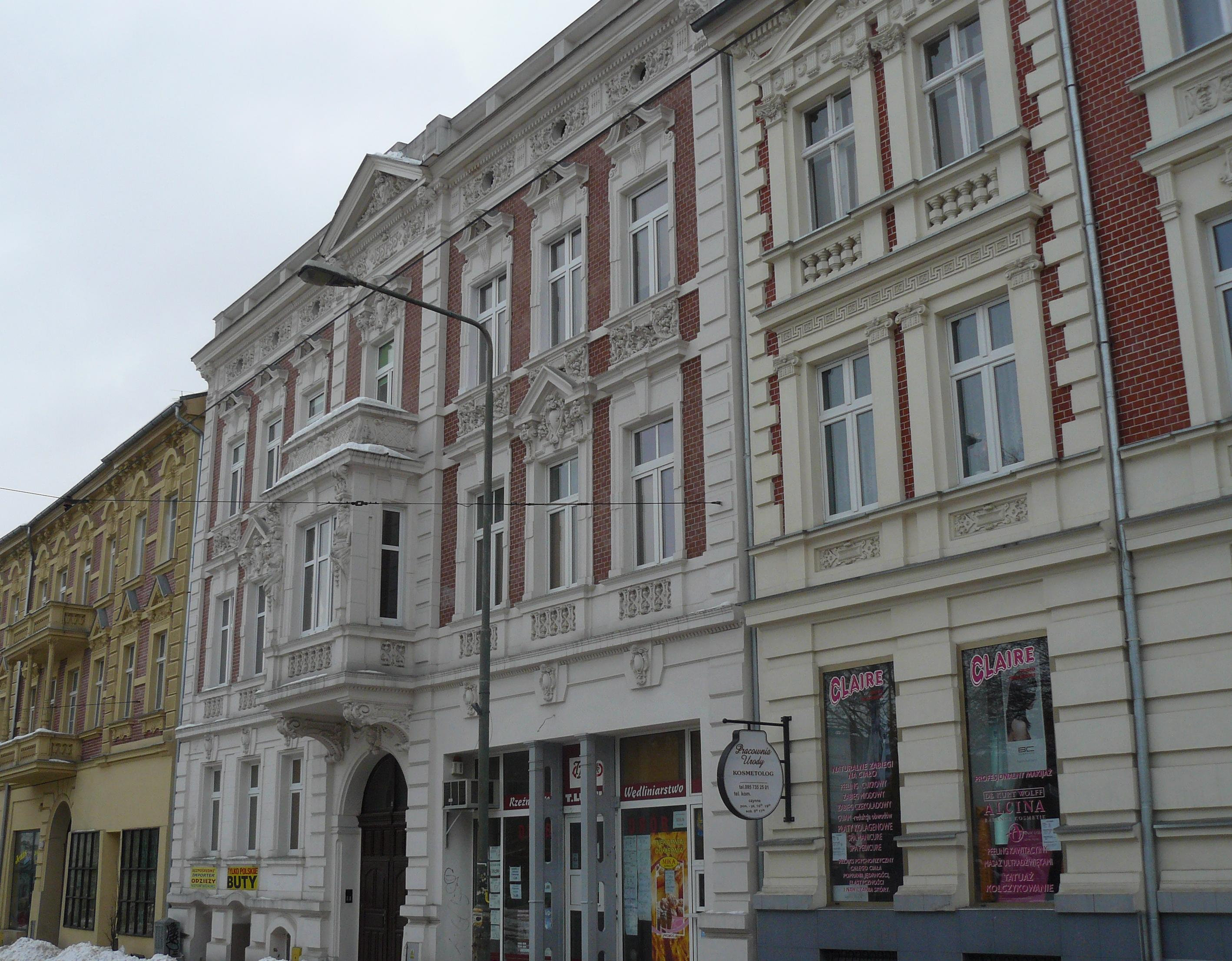 Chrobrego Street